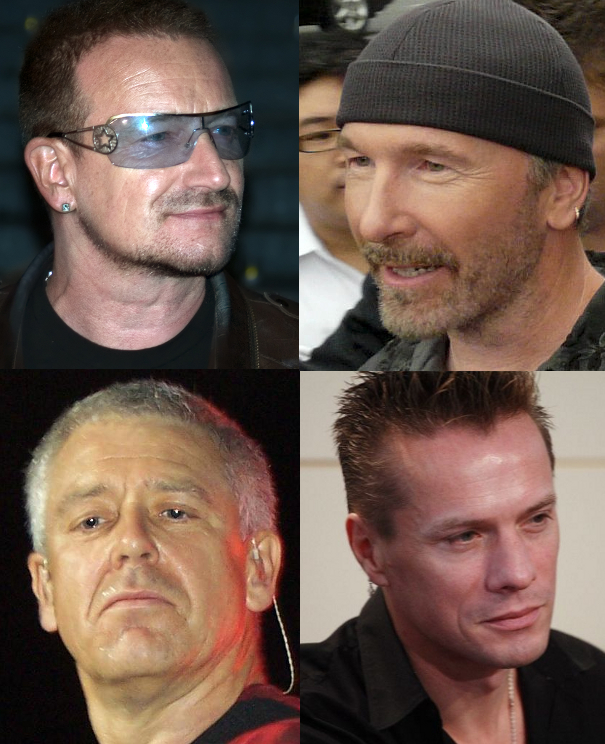 Photomontage of the Irish rock band U2. Clockwise from top left: Bono, The Edge, Larry Mullen, Jr., and Adam Clayton.